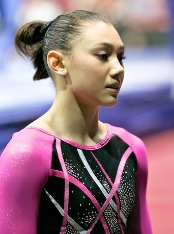 Kyla Ross